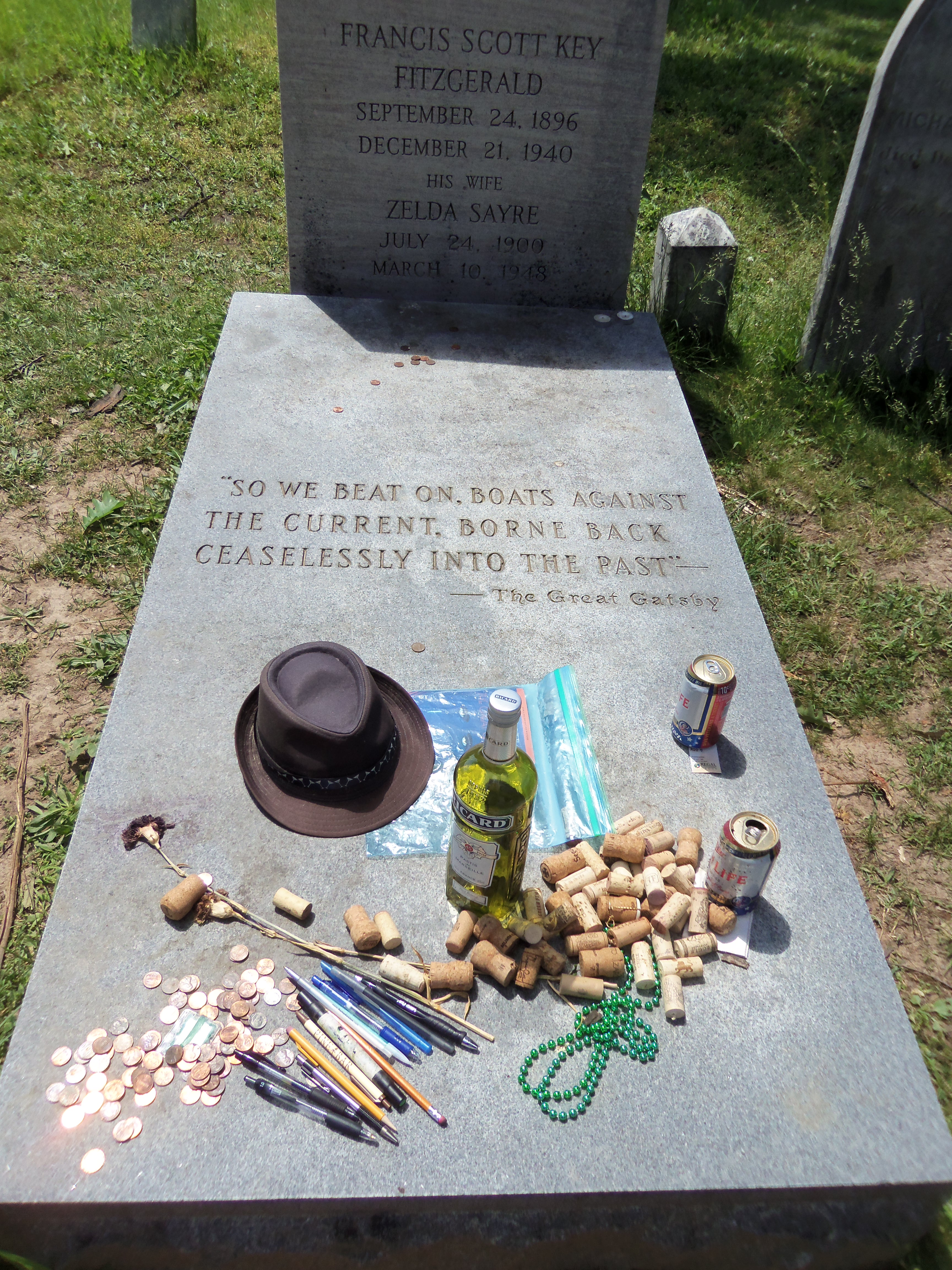 F. Scott and Zelda Fitzgerald grave at St. Mary's Cemetery in Rockville, Maryland. Offerings are left by admirers.